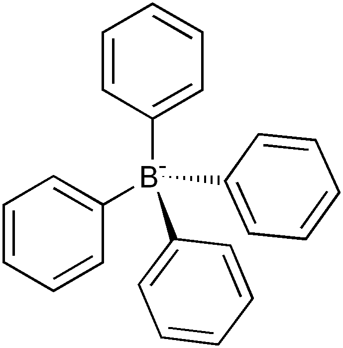 chemical structure of the tetraphenylborate anion